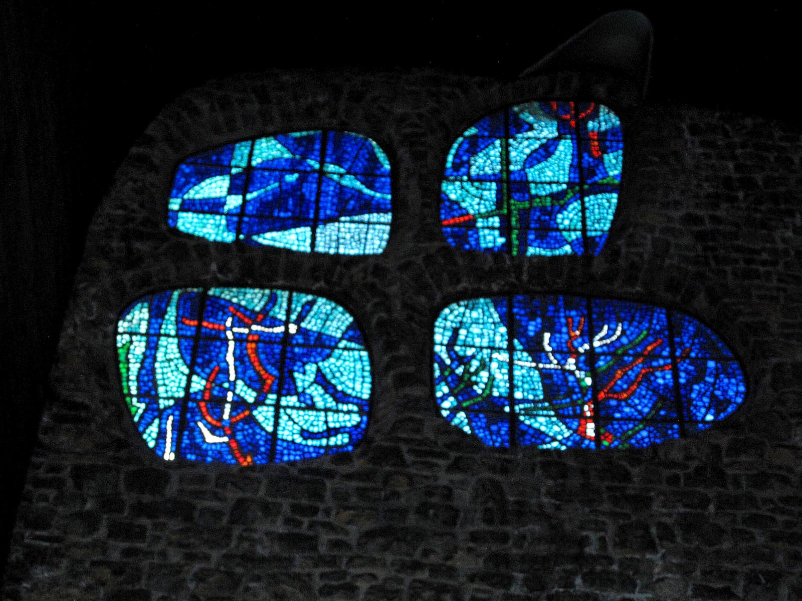 Xabier Alvarez de Eulate, stained glass windows, - Spain, Sanctuary of Arantzazu